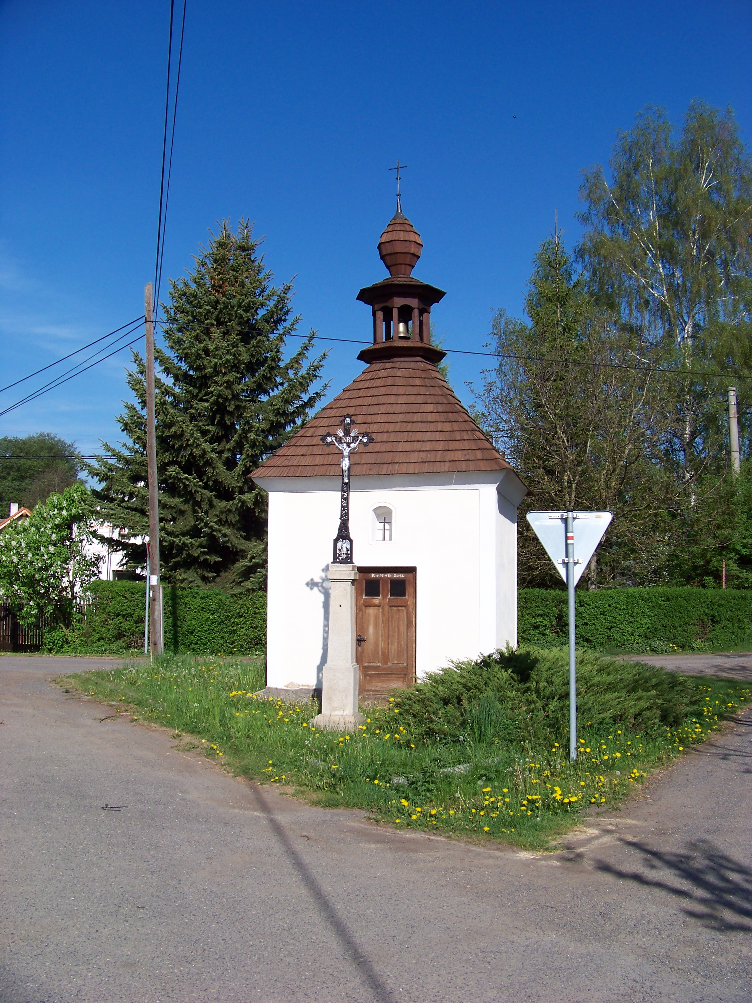 Milín-Stěžov, Příbram District, Central Bohemian Region, the Czech Republic. A chapel. - OpenStreetMap(Info)